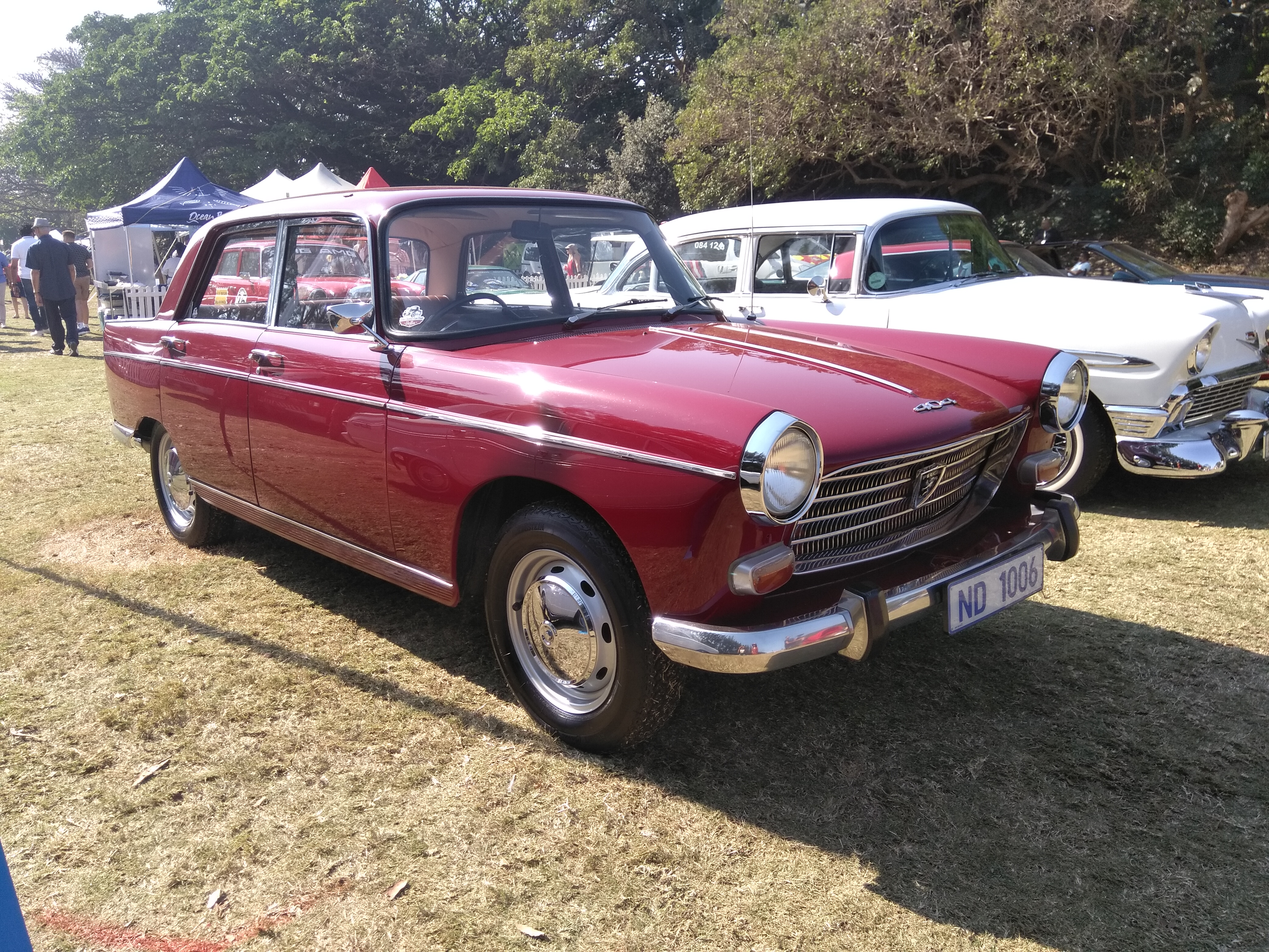 Peugeot 404 in South Africa